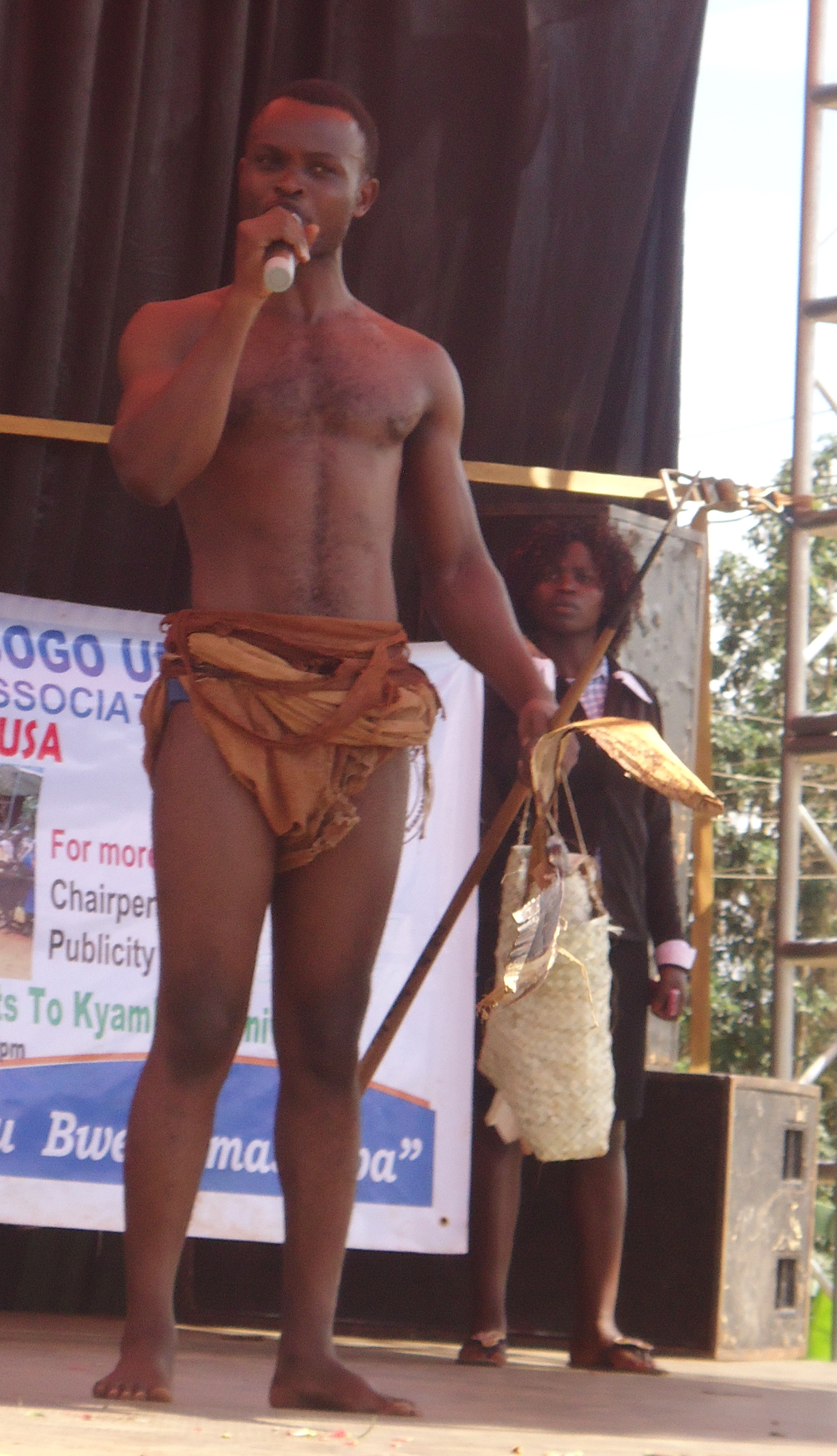 They used back cloth to cover the private parts This is an image of Cultural Fashion or Adornment from Uganda